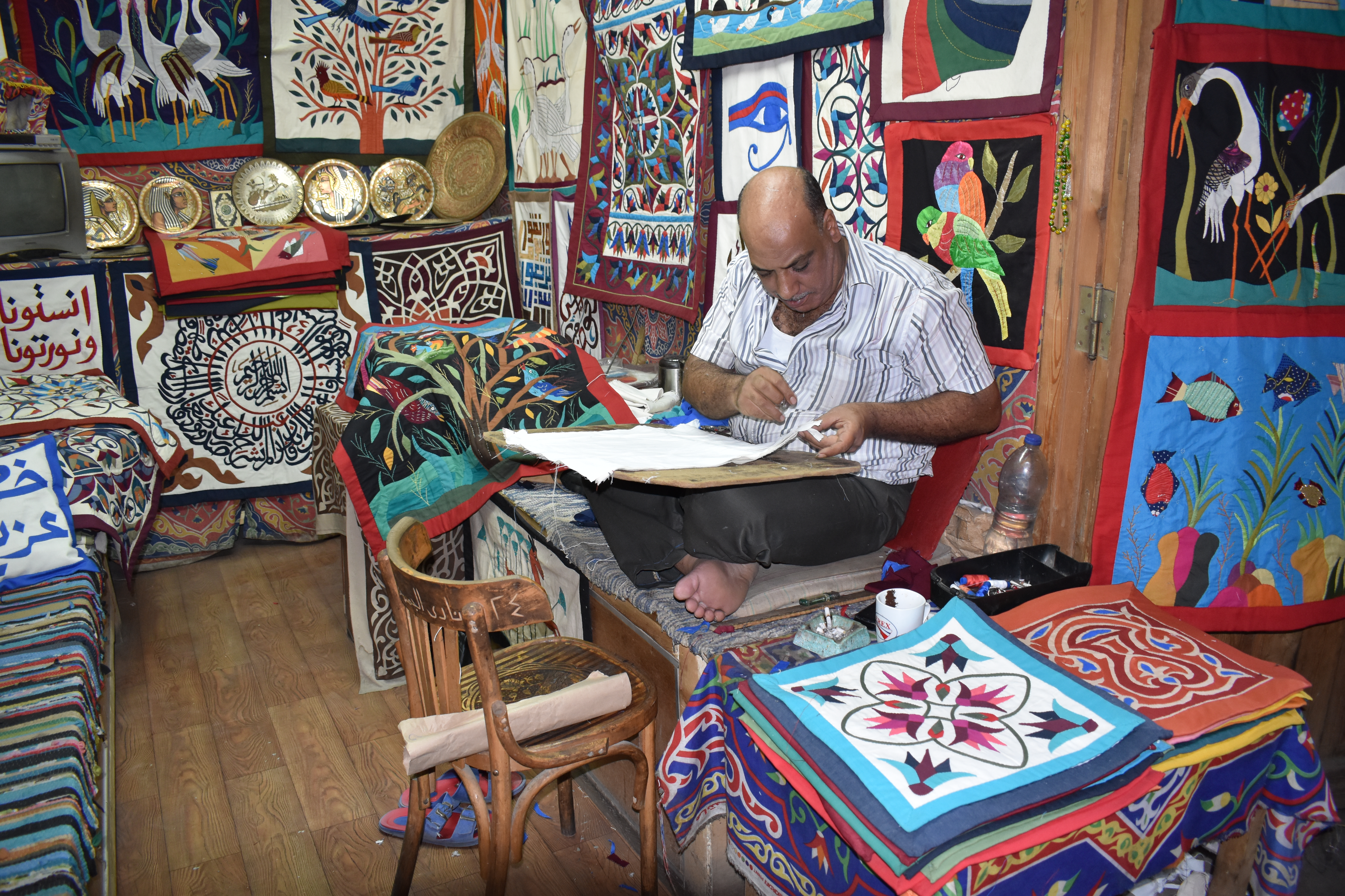 Tent maker in Elkhiyamia street in 2017, photo by Hatem Moushir